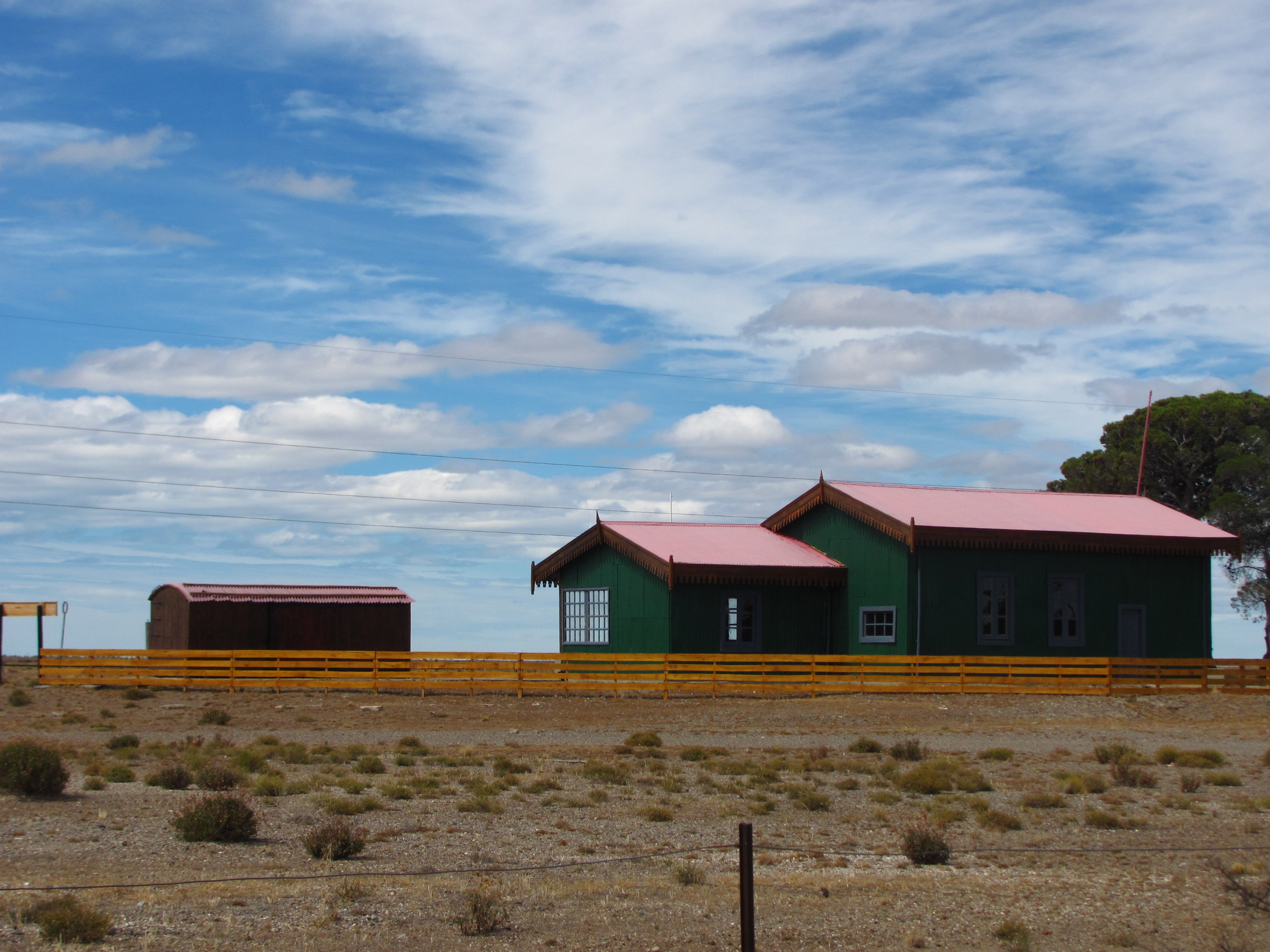 View of the Jaramillo railway station (Santa Cruz, Argentina)